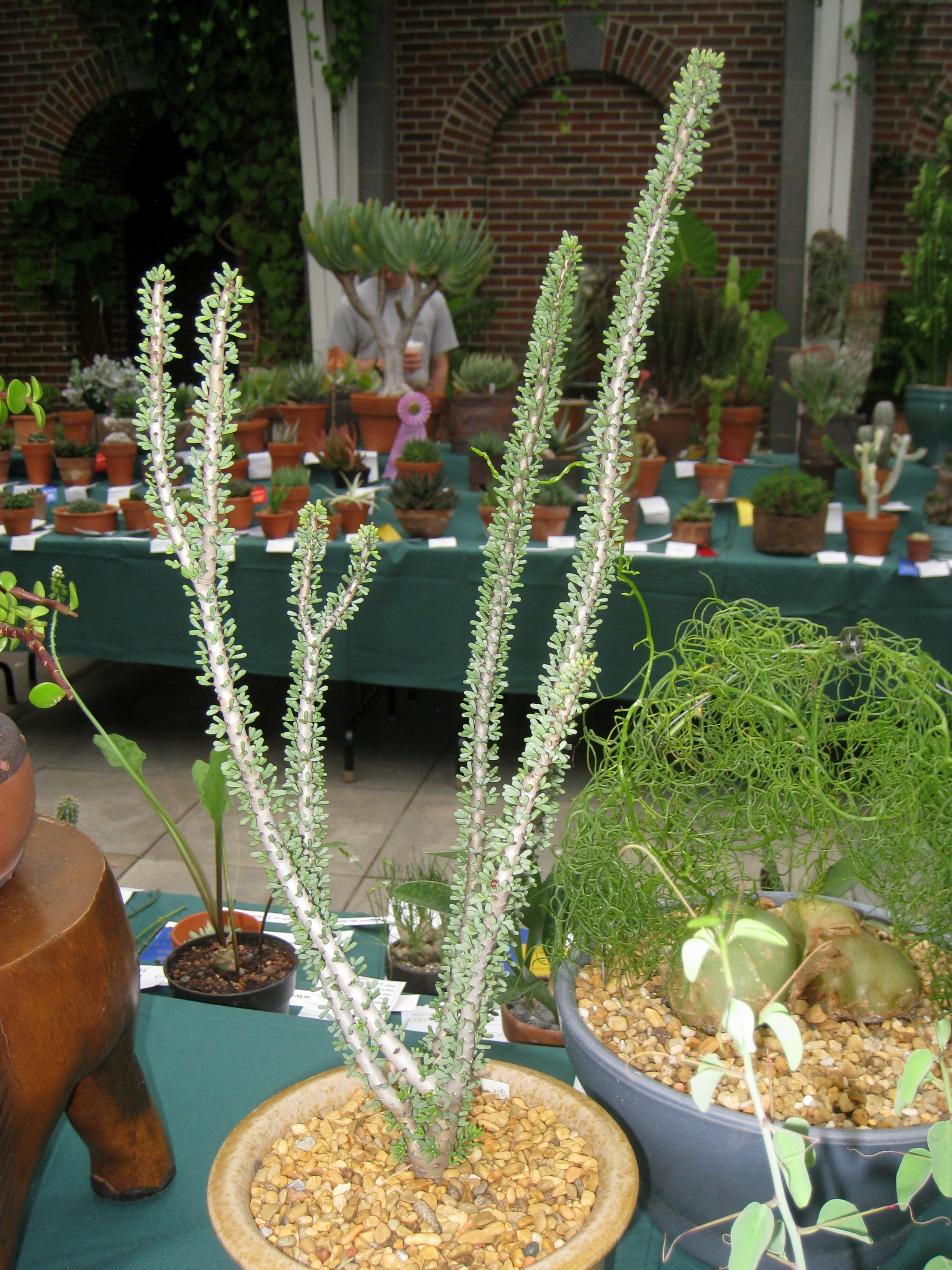 Ceraria mamaguensis, in Tower Hill Botanic Garden, Boylston, Massachusetts, USA.